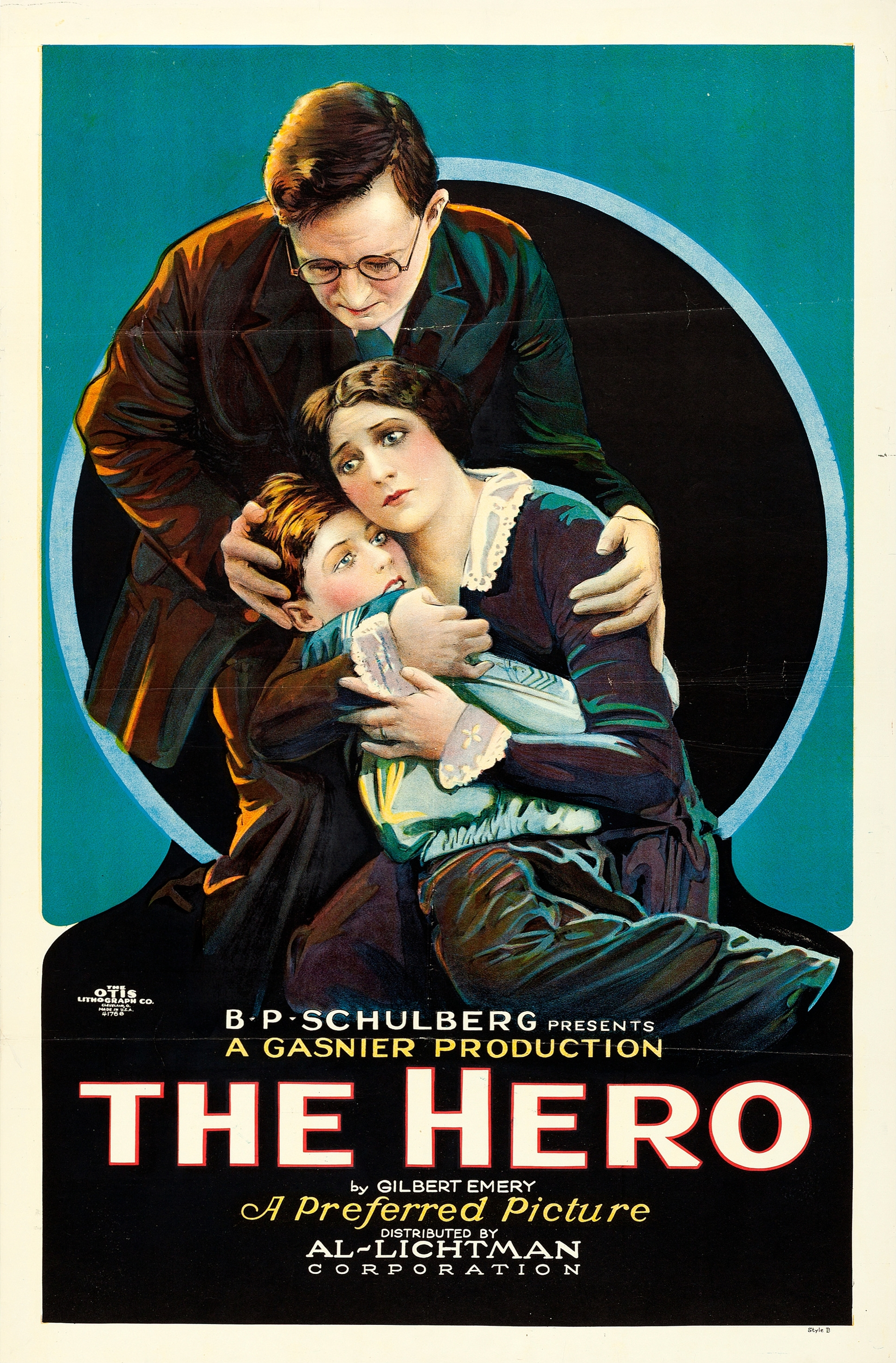 This is a poster for the American silent drama film The Hero (1923).